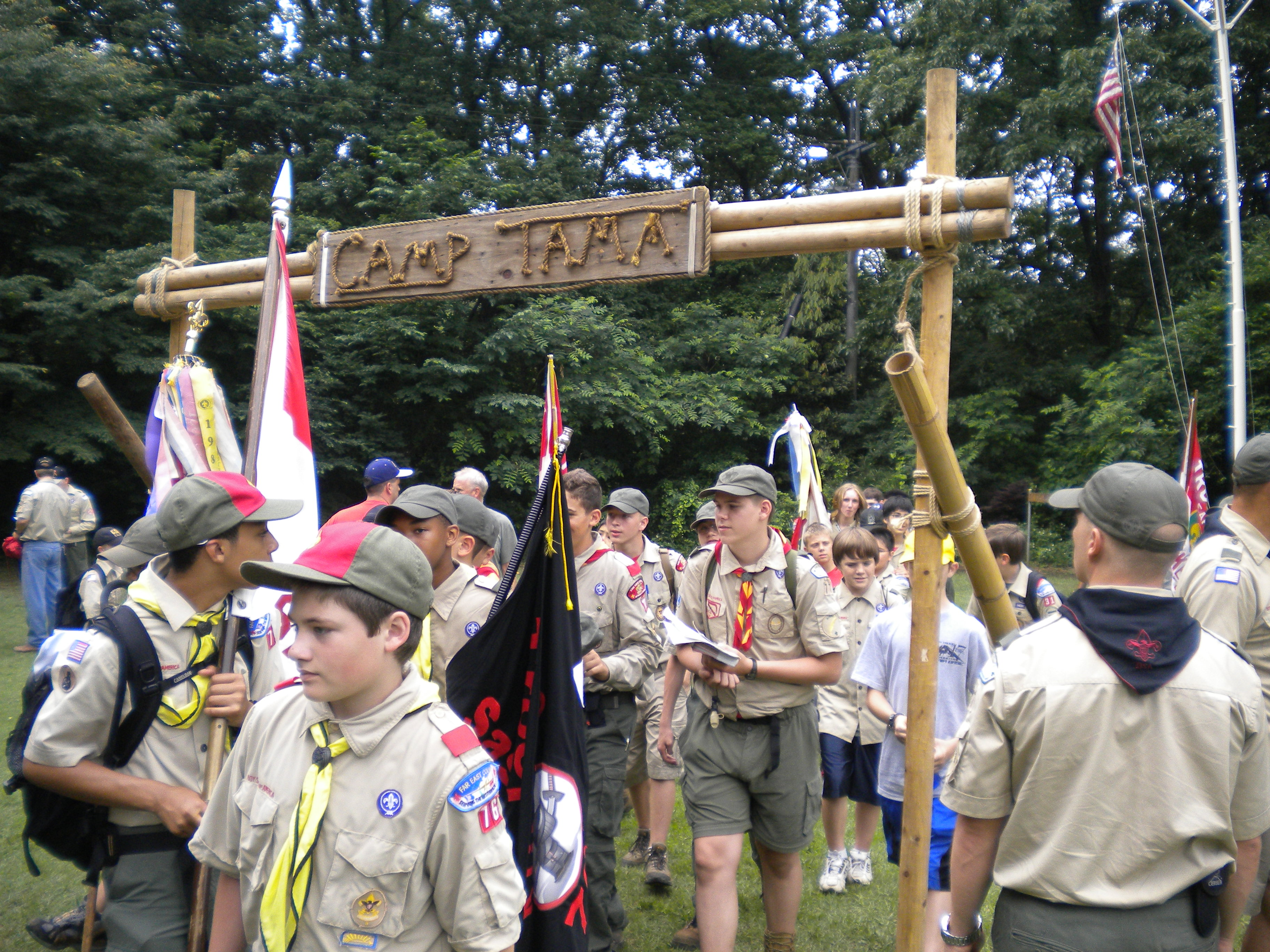 Boy Scouts of America Far East Council Troop 77 break from morning assemblies and hike to begin the remaining activities for the day during their one-week summer camp at Camp Tama in Yokota, Japan. For their outstanding effort in their summer camp project, Troop 77 was titled the honor troop for the seventh year in a row. The troop’s summer camp project was a staircase made out of trees and rocks to help future troops walk down the steep hills around Camp Tama.